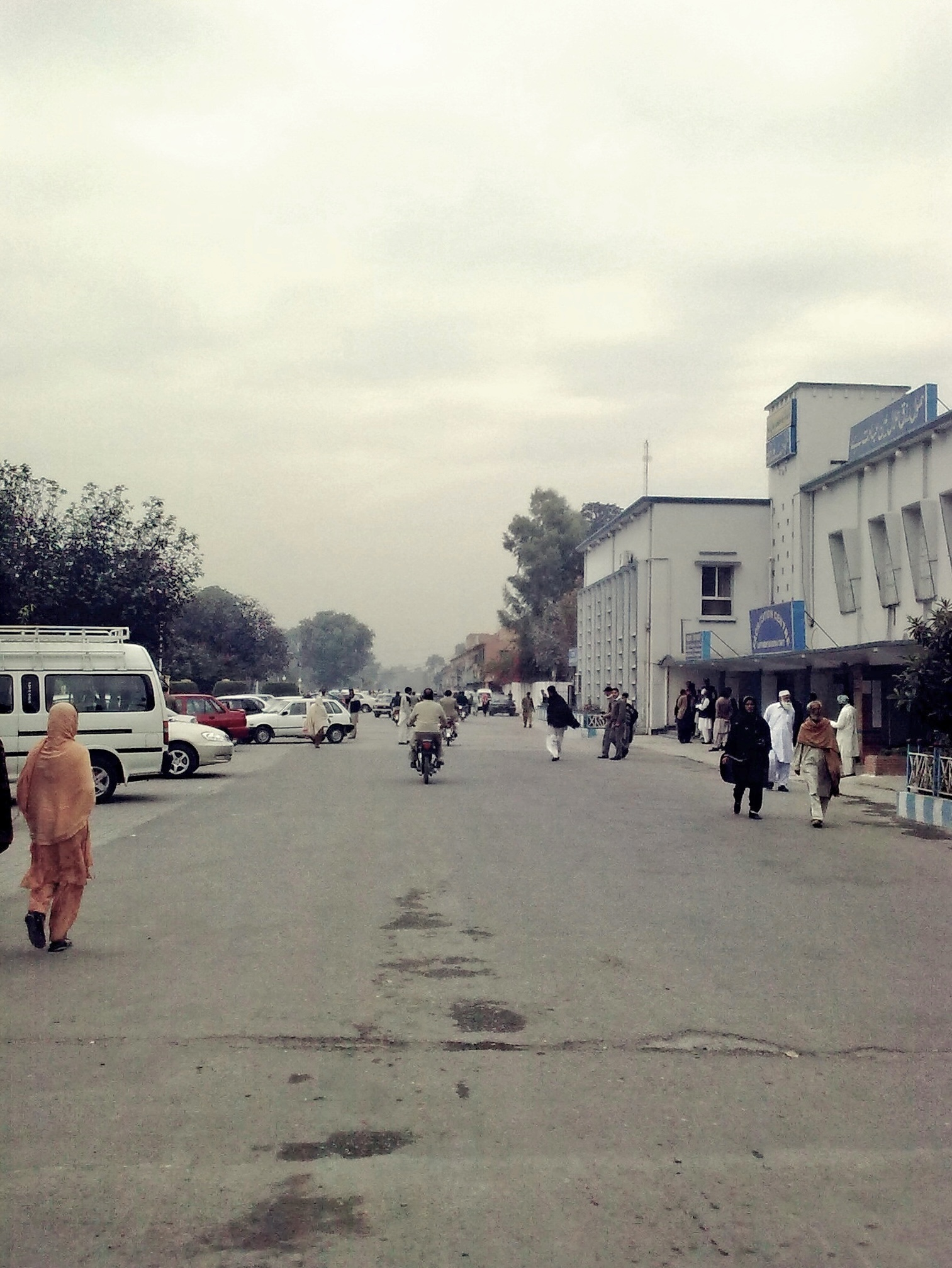 Cantonment Board Wah Cantt